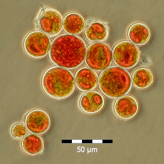 Haematococcus pluvialis in its final stage (Aplanospore). Cell aggregation commonly occurs due to nitrogen deprivation, resulting in the formation of Astaxanthin